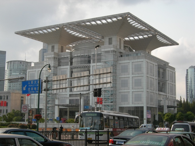 Shanghai Urban Planning Exhibition Hall